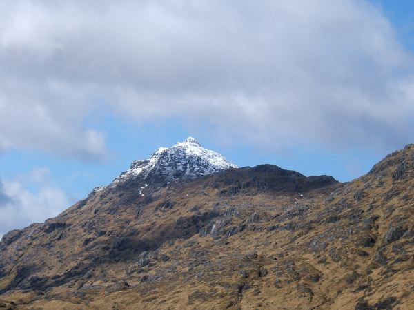 Look towards Meall na Sroine, the "peak of the Nose", with the snowy peak of Bidein a Chabair in the background